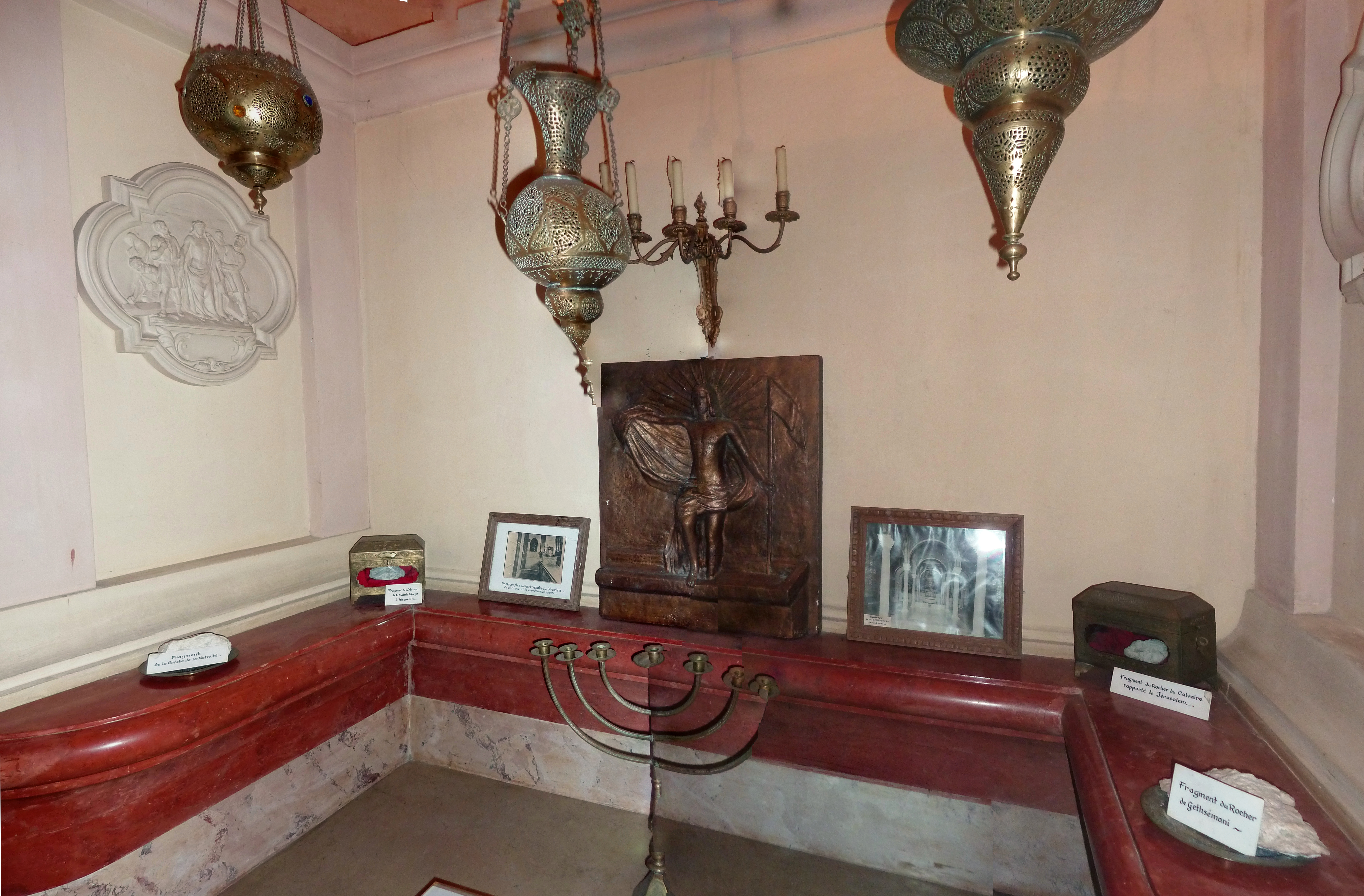 Room of the Tomb in the church of the Holy Sepulchre in the town of Angers, Maine-et-Loire, Pays de la Loire, France.